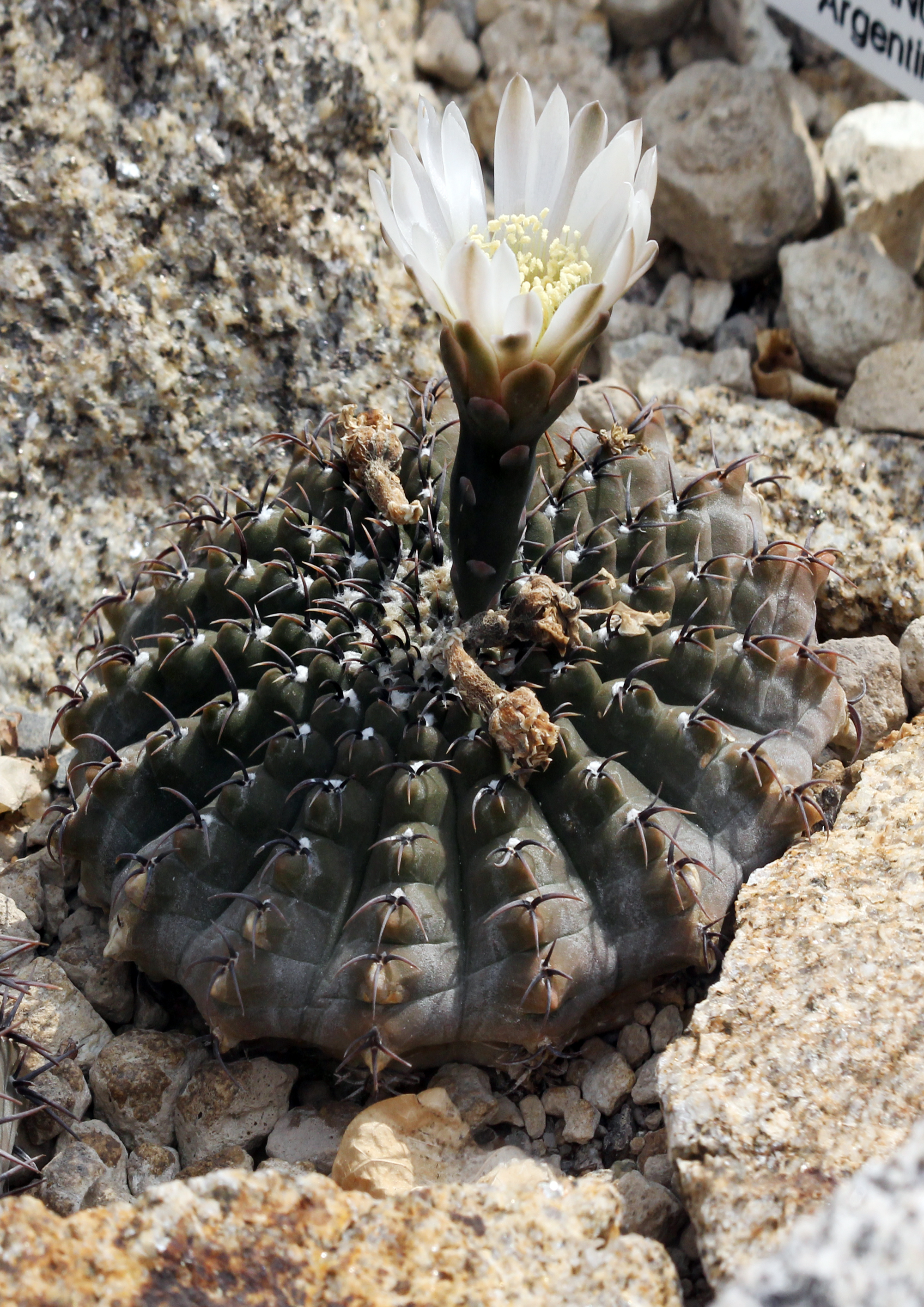 Cactus Gymnocalycium quehlianum, (Gymnocalycium quehlianum), the Botanical Gardens of Charles University, Prague, Czech Republic